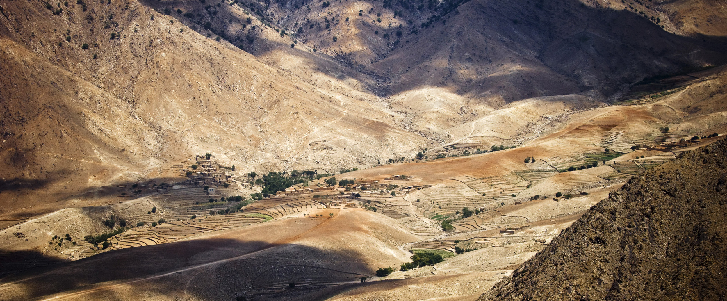 BAGRAM AIR FIELD, Afghanistan -- A village sits in a valley in the Hindu Kush Mountain Range in Laghman Province, Afghanistan September 7, 2008. In the absence of flat ground, local farmers create terraces in the side of the mountain to plant crops in. (U.S. Air Force photo by Staff Sgt. Samuel Morse/Released)